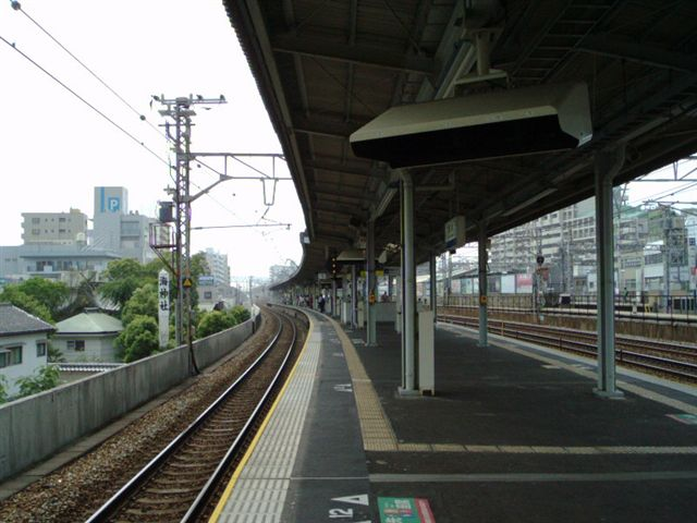 Home of JR-Tarumi Station(Photograpy:Nozomikobe/4 Jun,2006)